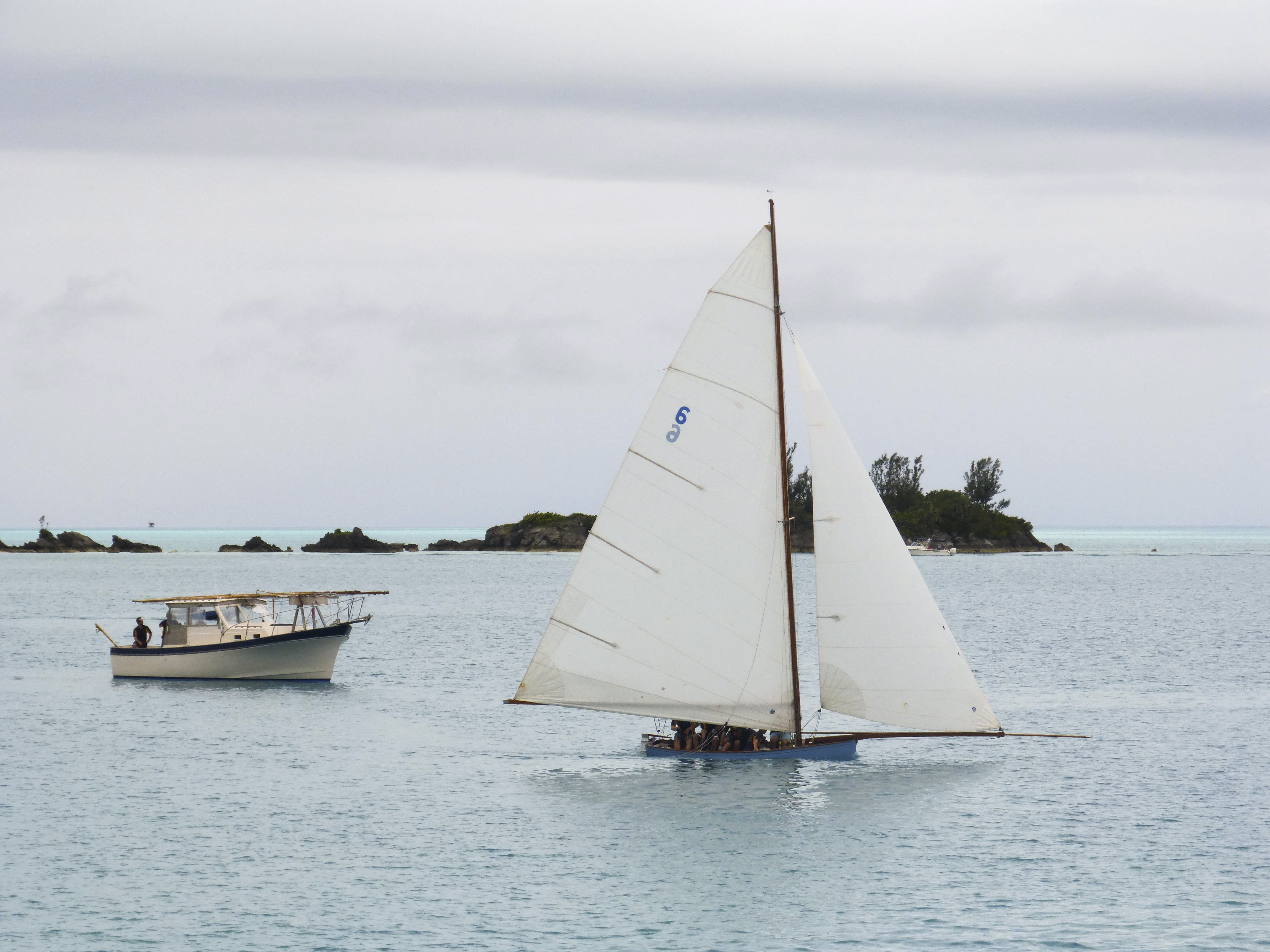 A Bermuda Fitted Dinghy racing at Mangrove Bay, off Somerset Island, Bermuda, on the 21 June, 2016.